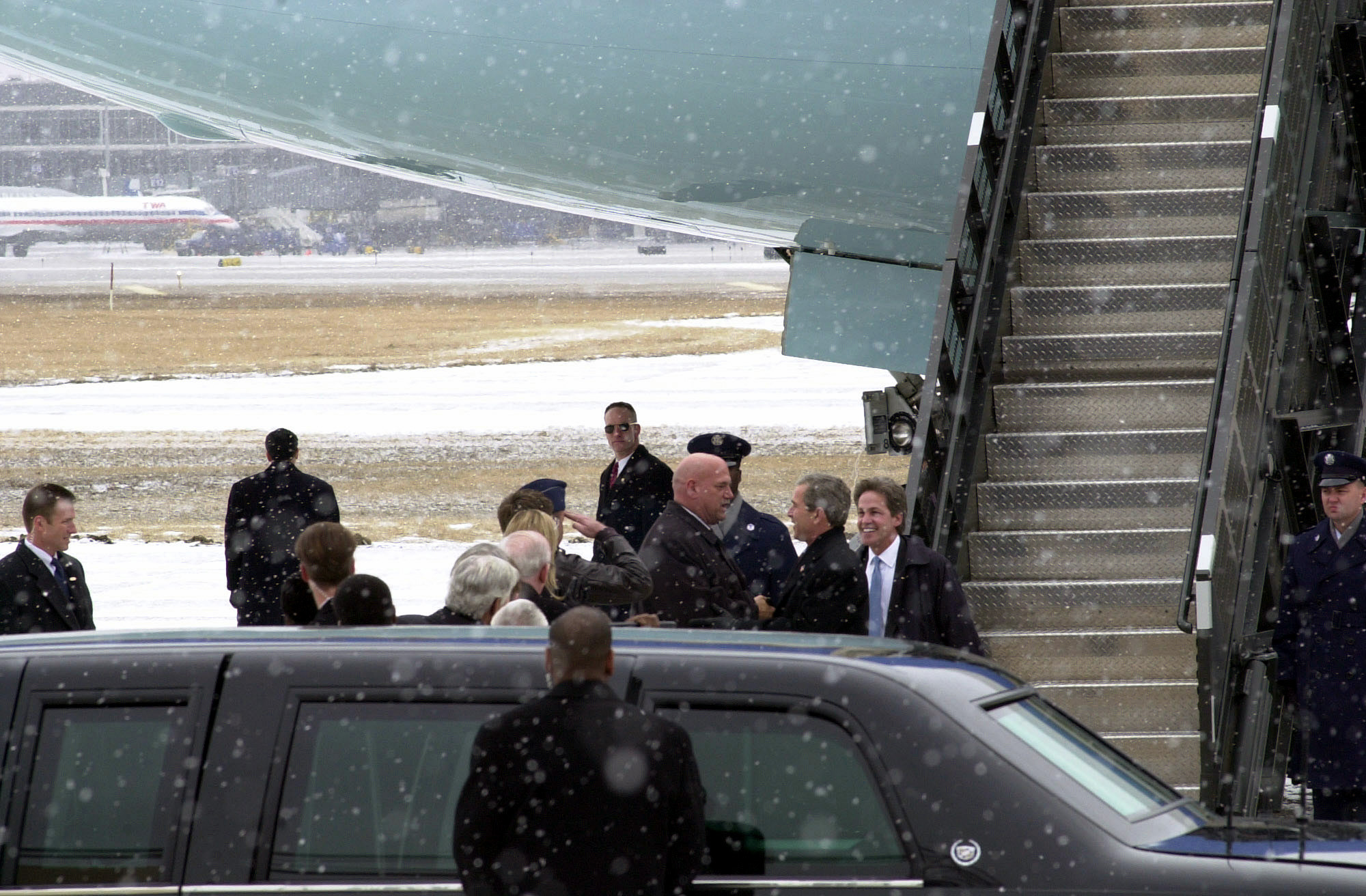 Governor Jesse Ventura welcomes US President George W. Bush and US Senate candidate Norm Coleman to Minnesota upon their arrival at Minneapolis St. Paul International Airport, 3/4/2002